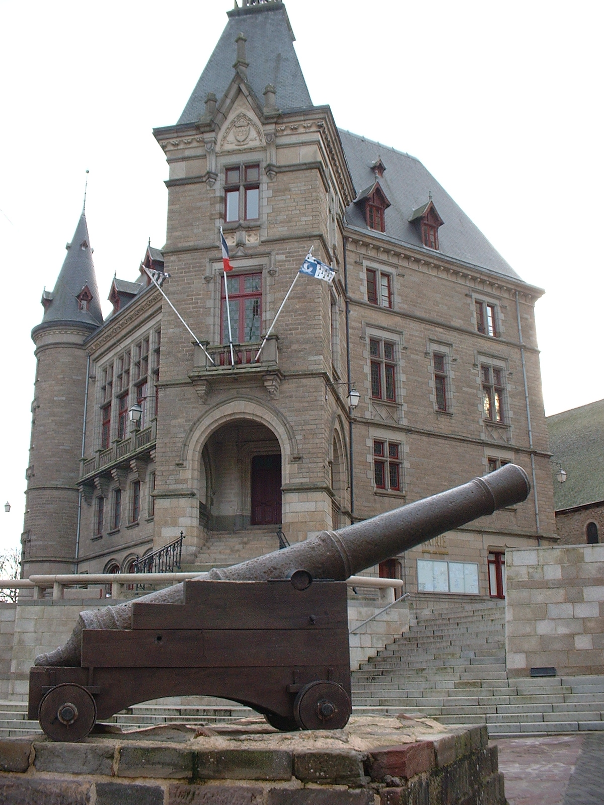 Town hall of Redon.